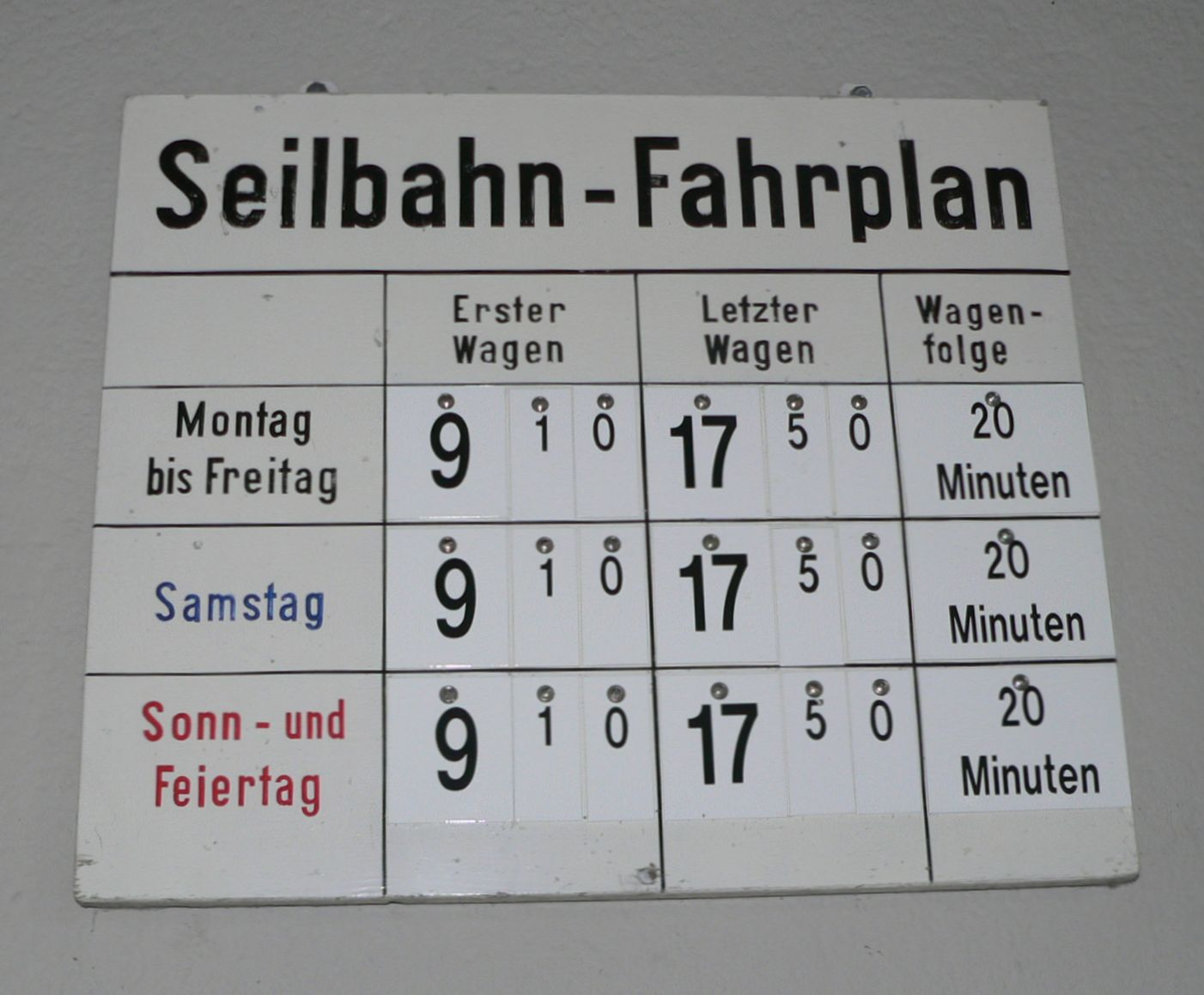 Timetable in the upper station of the funicular, Stuttgart, Germany